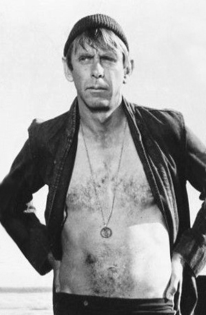 Publicity photo of Roger Mobley, Robert Sorrells, and James Daly for The Wonderful World of Disney episode Treasure of San Bosco Reef.